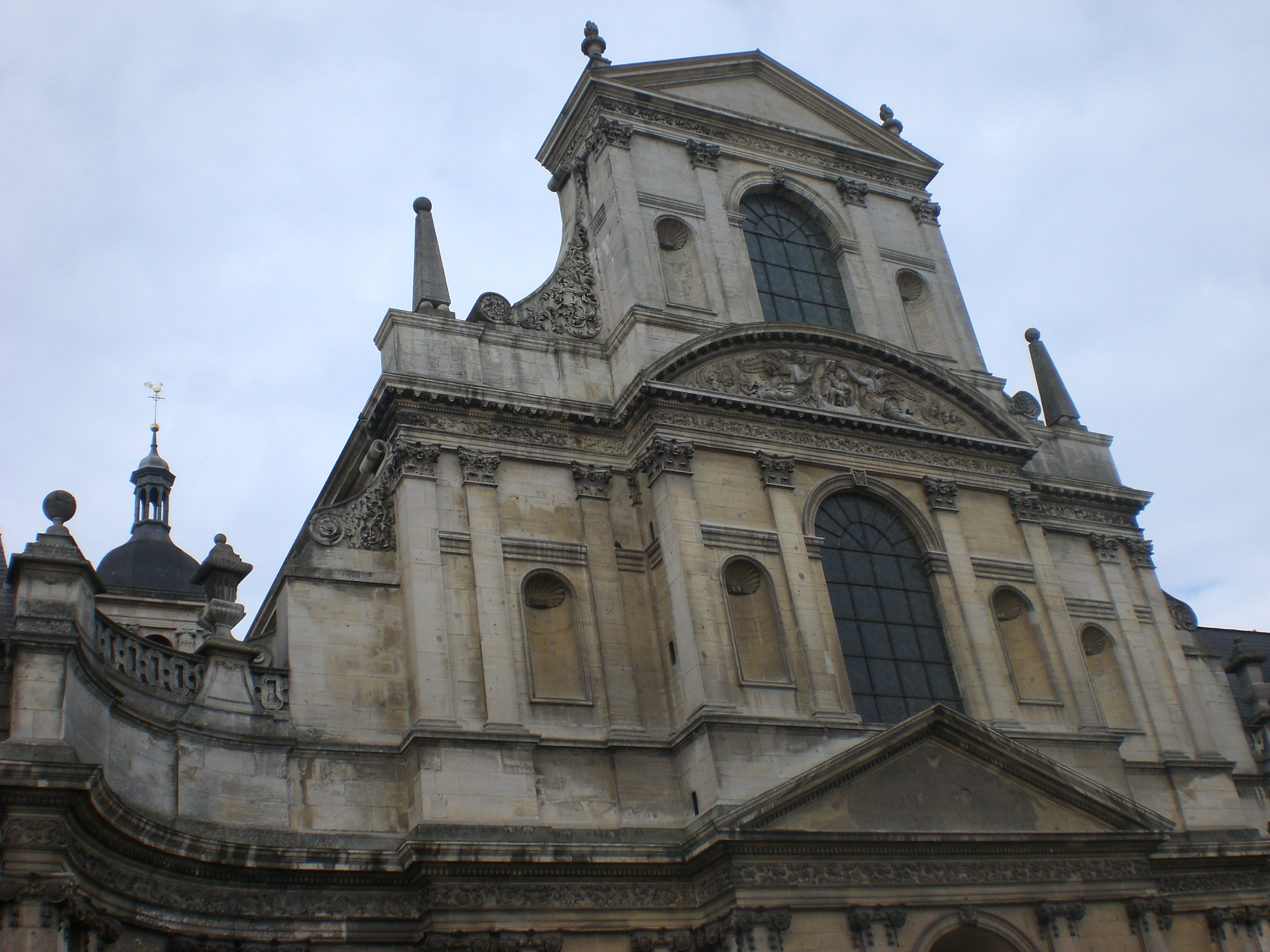 Pont-à-Mousson, Premonstratensian Abbey, XVIII Century